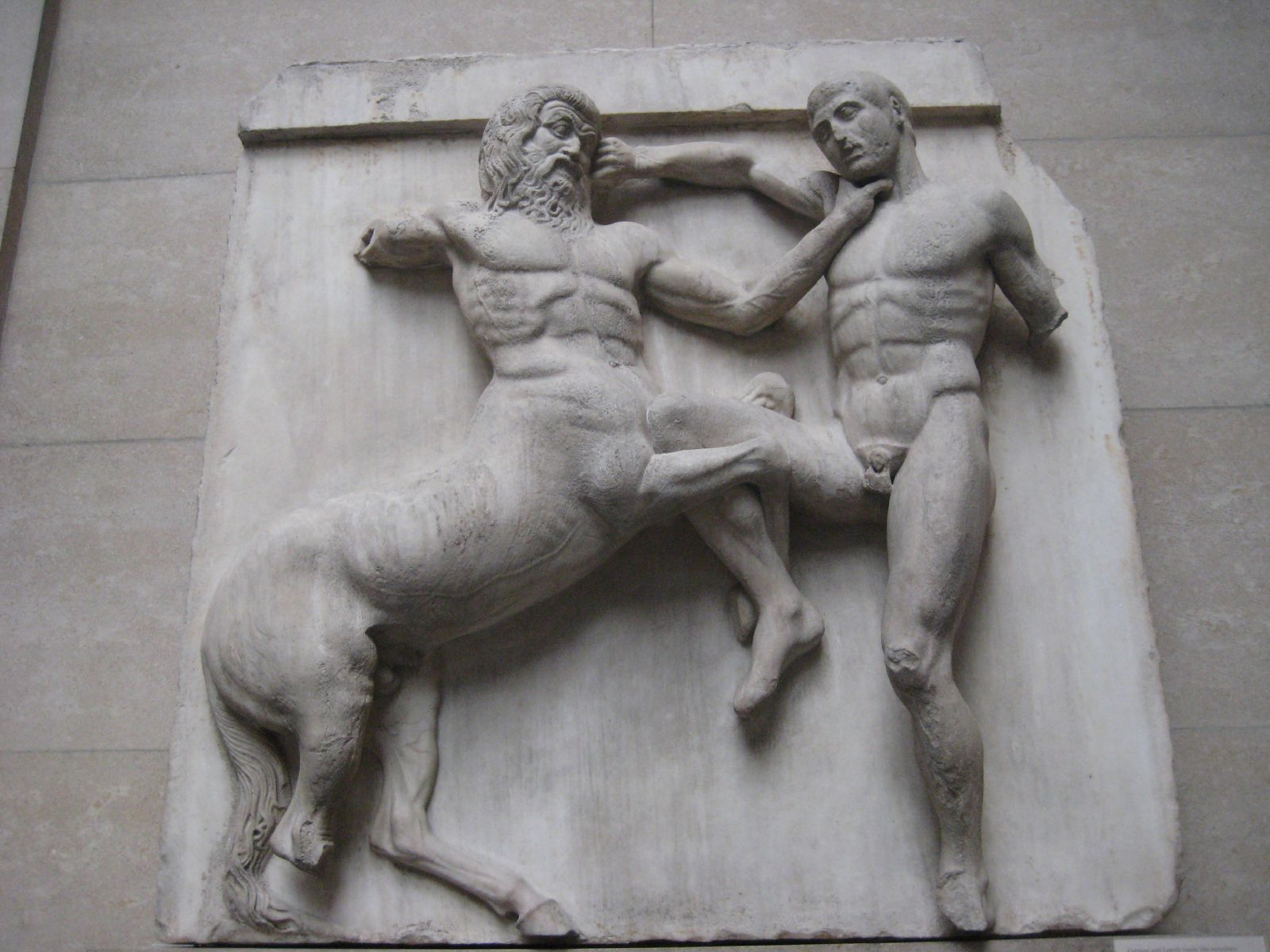 Elgin Marbles. Greek, from the Parthenon. South metope XXXI 5th century BC.